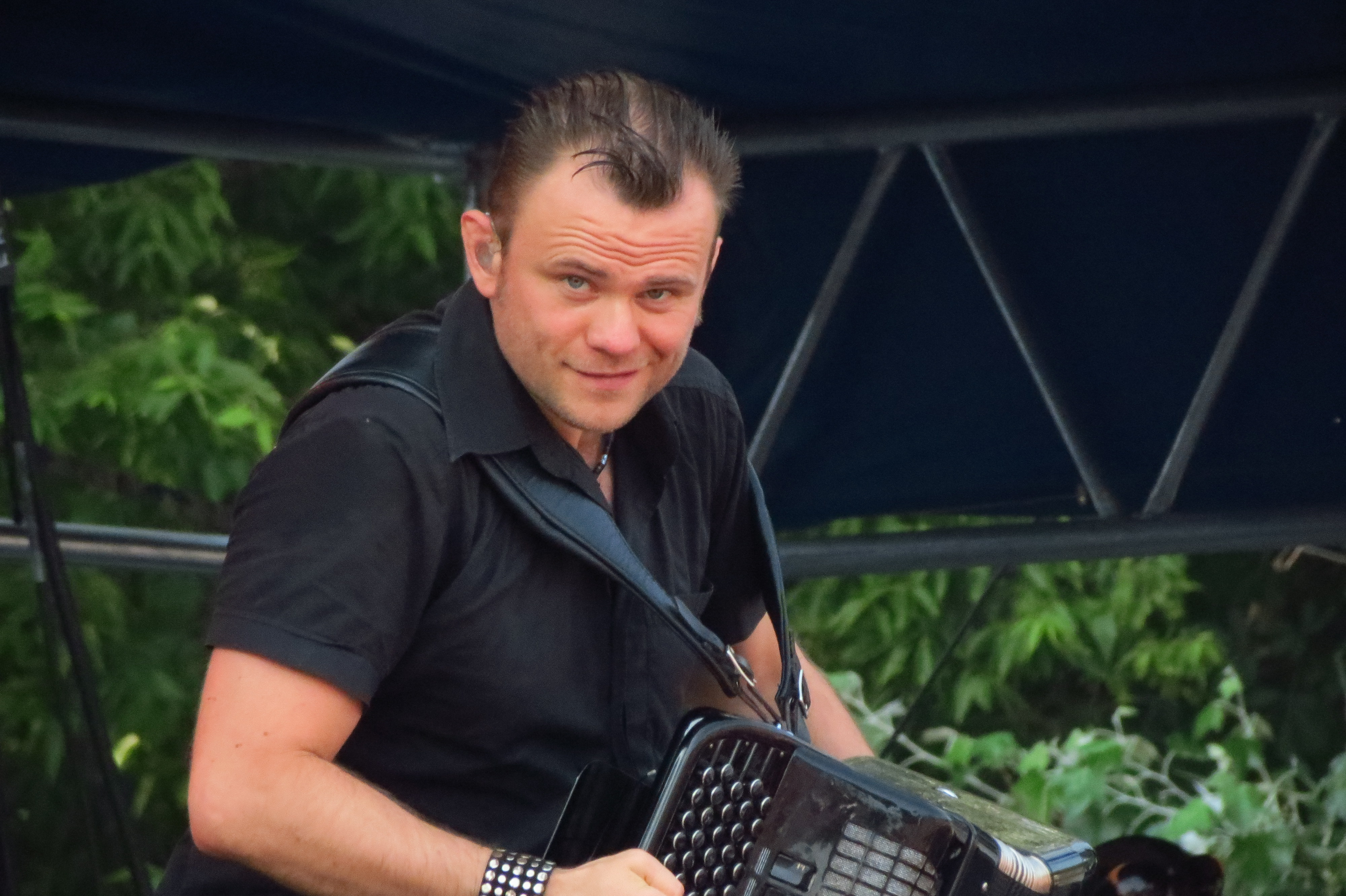 Pasha Newmer (accordionist of the band Gogol Bordello) in concert in 2014.